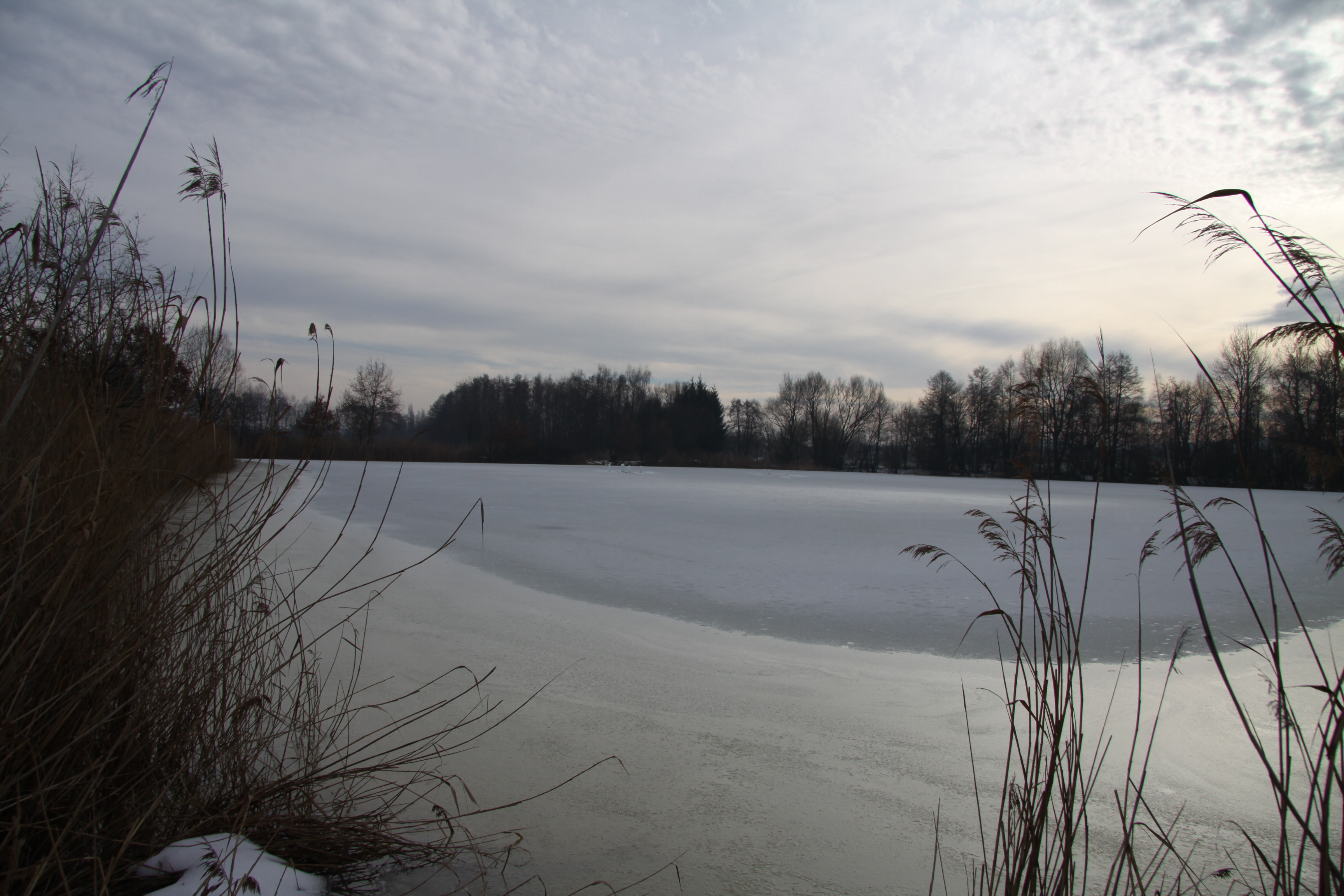 Natural monument called Malý ústavní rybník near Vodňany, Strakonice District, Czech Republic - Google Maps - Google Earth